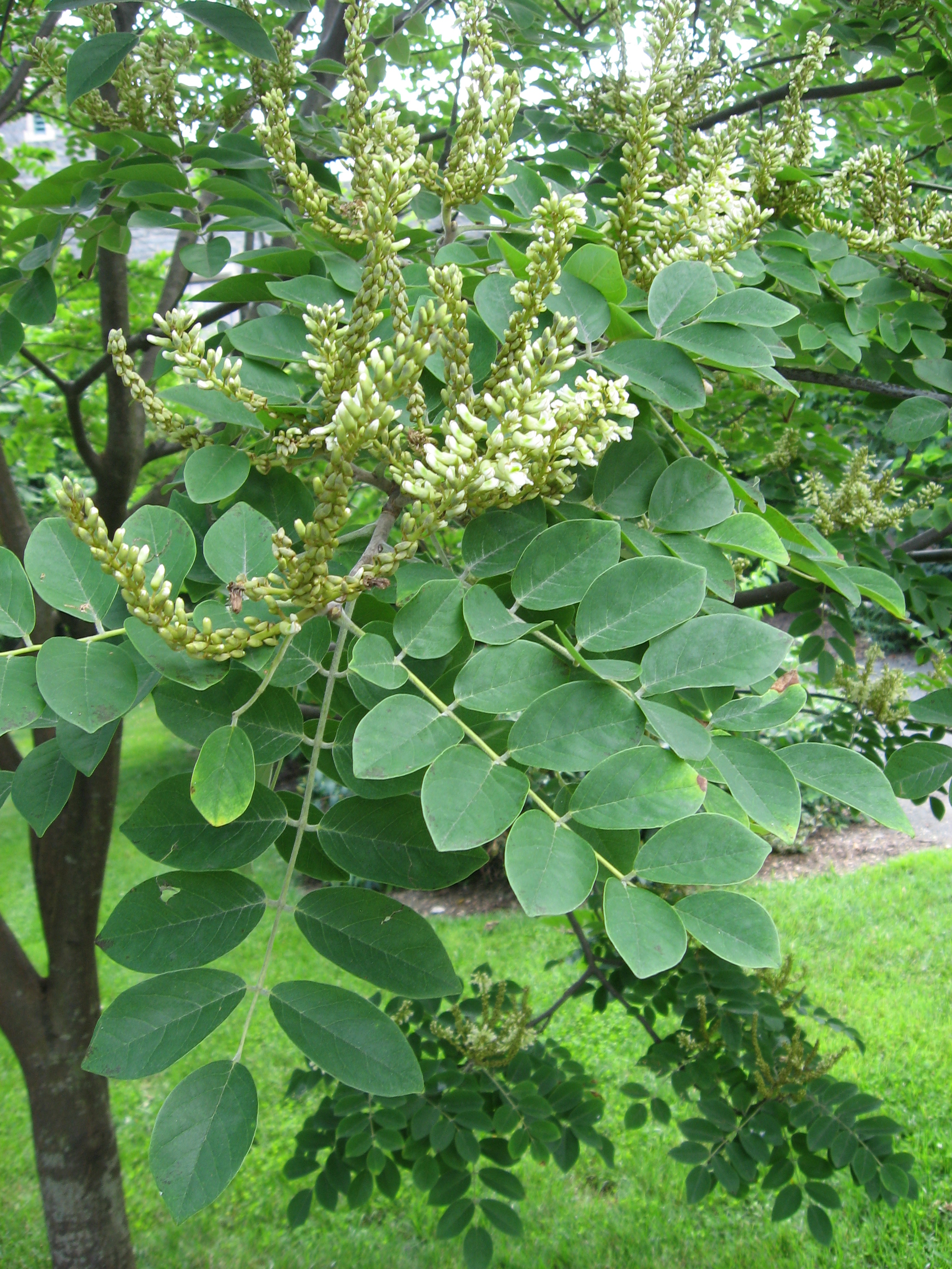 A picture of the leaves of Maackia amurensis.